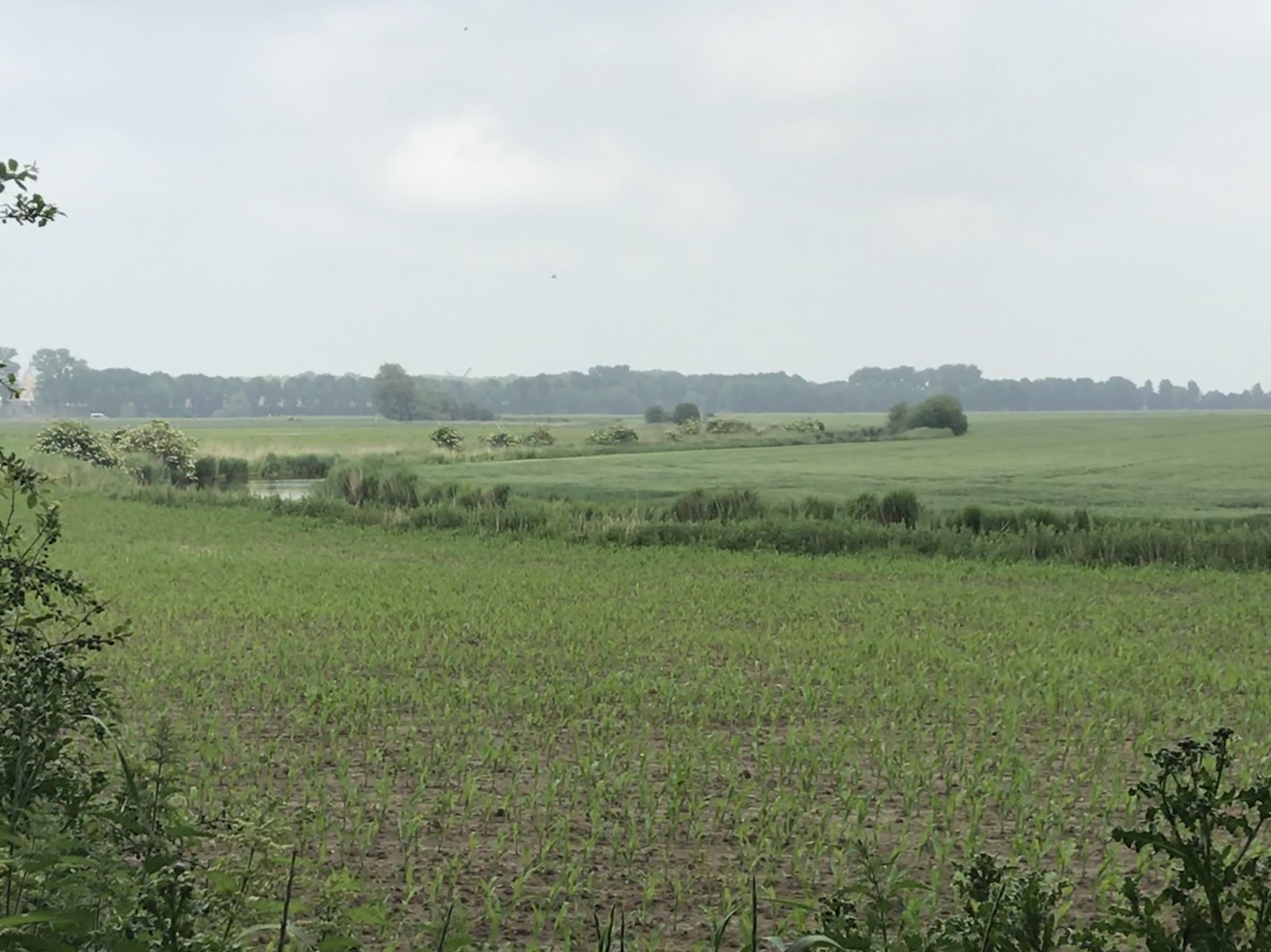 Damme (Lapscheure), Belgium: The creek Lapscheurse Gat